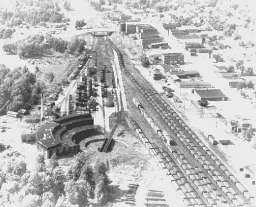 An aerial of Virginian Railway (VGN) facilities at Victoria, Virginia taken in 1954. The roundhouse is at the lower left, and the passenger station and division offices of the railroad are at the center, to the right on the tracks. Behind the station, the business area of "downtown" Victoria is parallel to the railroad at the right. This photo was provided by the Town Manager of Victoria, VA